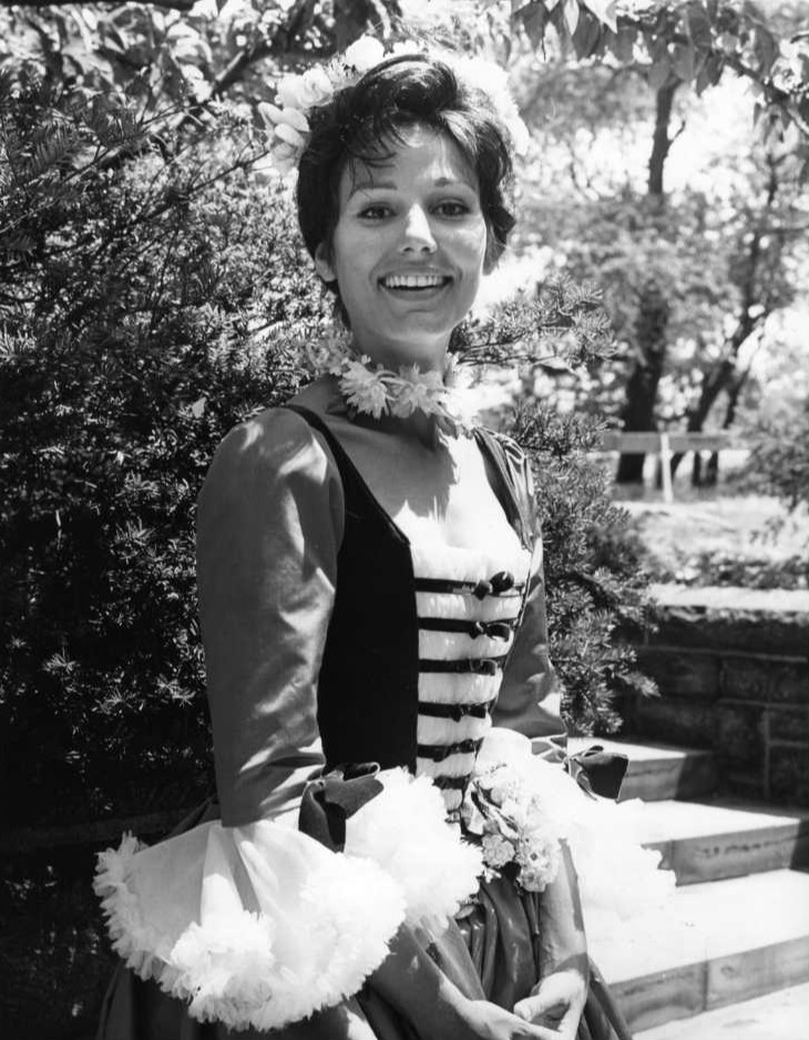 Photo of Paula Prentiss in Shakespeare's As You Like It presented by New York Shakespeare Festival.